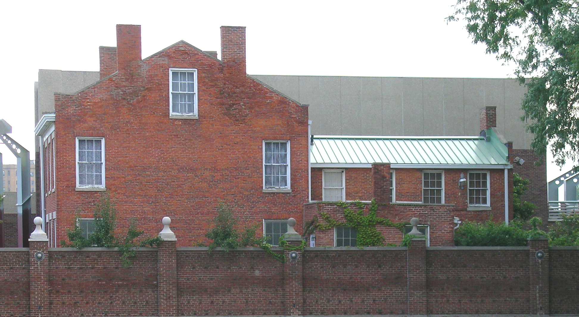 Side elevation of Moross House, Detroit MI